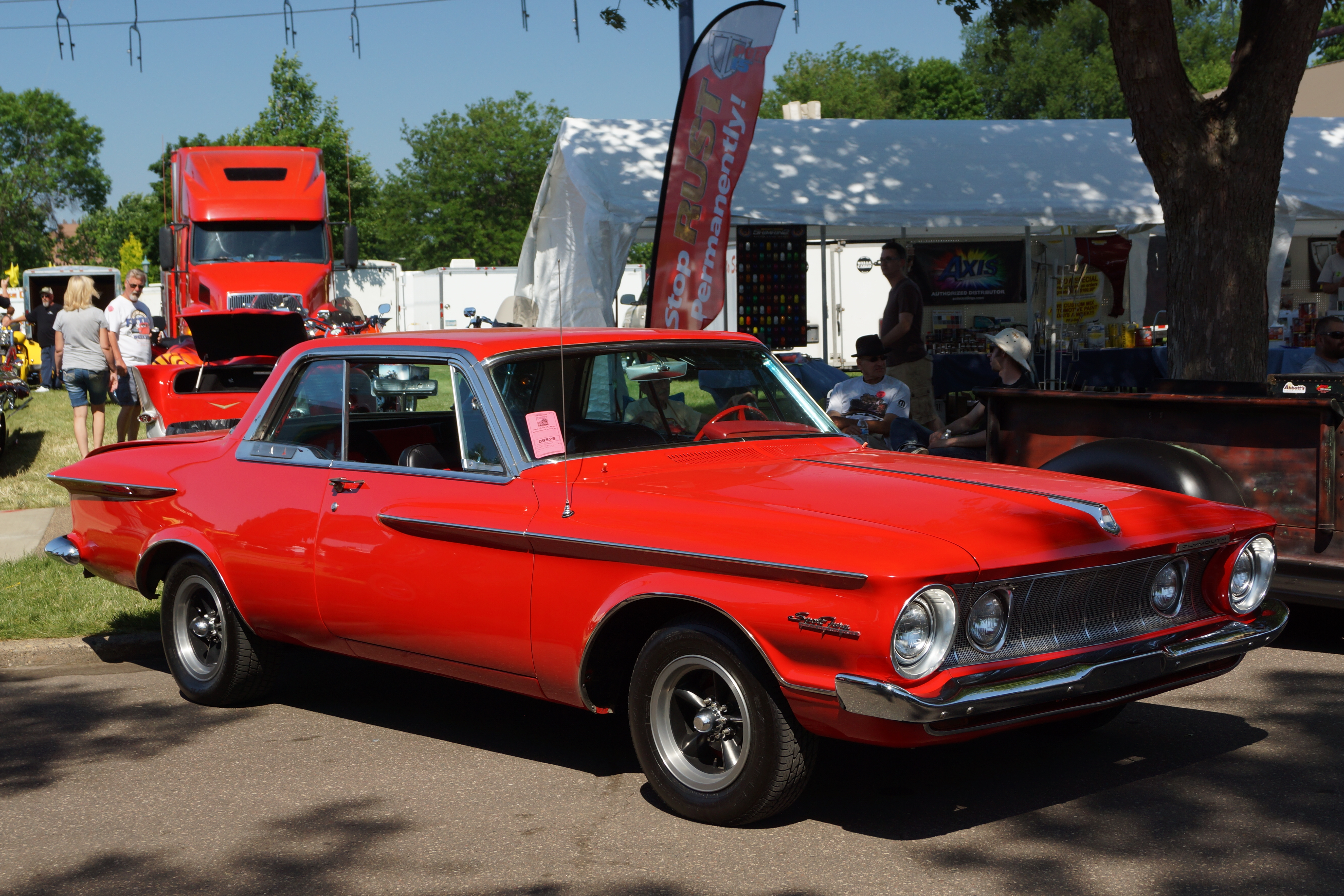 Minnesota Street Rod Association (MSRA) “BACK TO THE 50′s” 43nd Annual Car Show June 17-19, 2016 State Fairgrounds St. Paul, Minnesota Click here for more car pictures at my Flickr site. Also on Tumblr